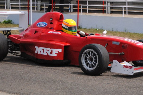 Tamil Actor Ajith Kumar getting ready for the race.